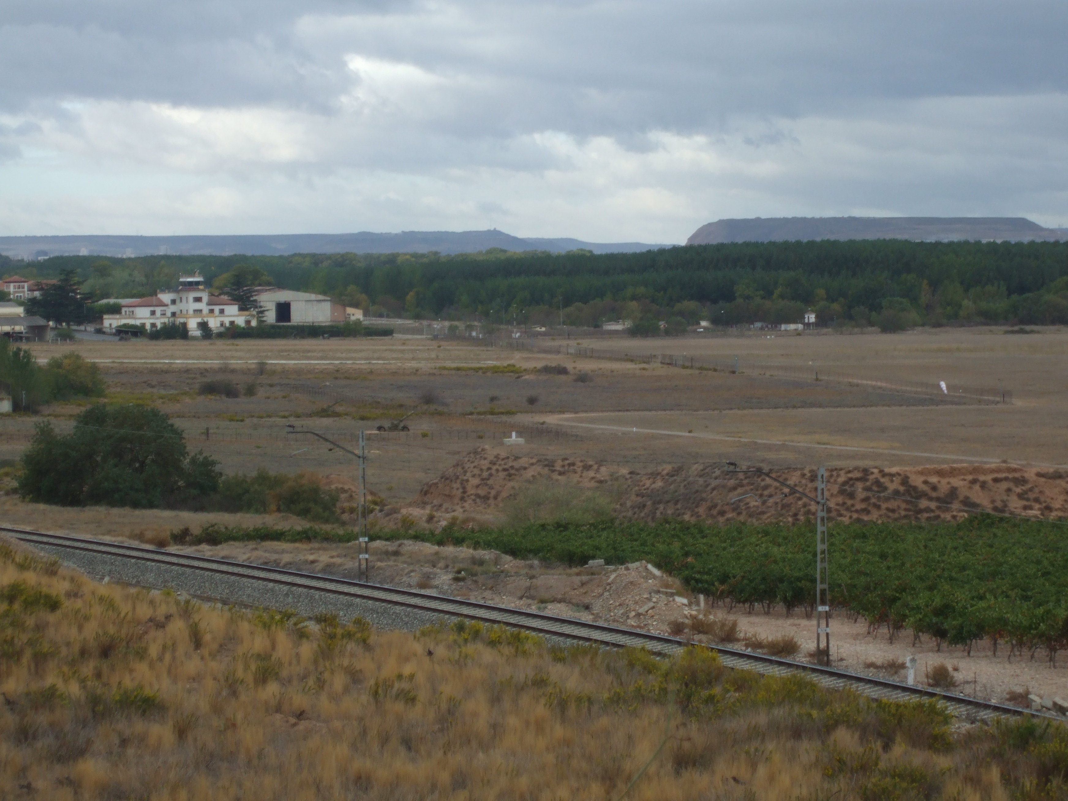 The origins of today's Logroño airport in Spain's La Rioja region is the military airfield "Agoncillo", it lies just outside Recajo village, a few kilometers east of the provincial capital. The new civilian terminal is located to the northeast of the military area. After first being used by the air force the control was later transferred to the army aviation.